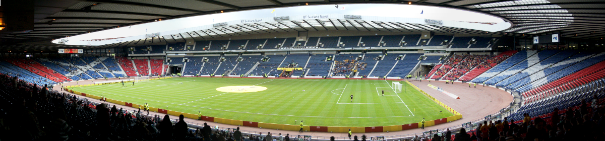 Hampden Park. Home of the Scotland National Football Team. Hampden Park will host the Athletics events and the Closing Ceremony. Hampden Park.